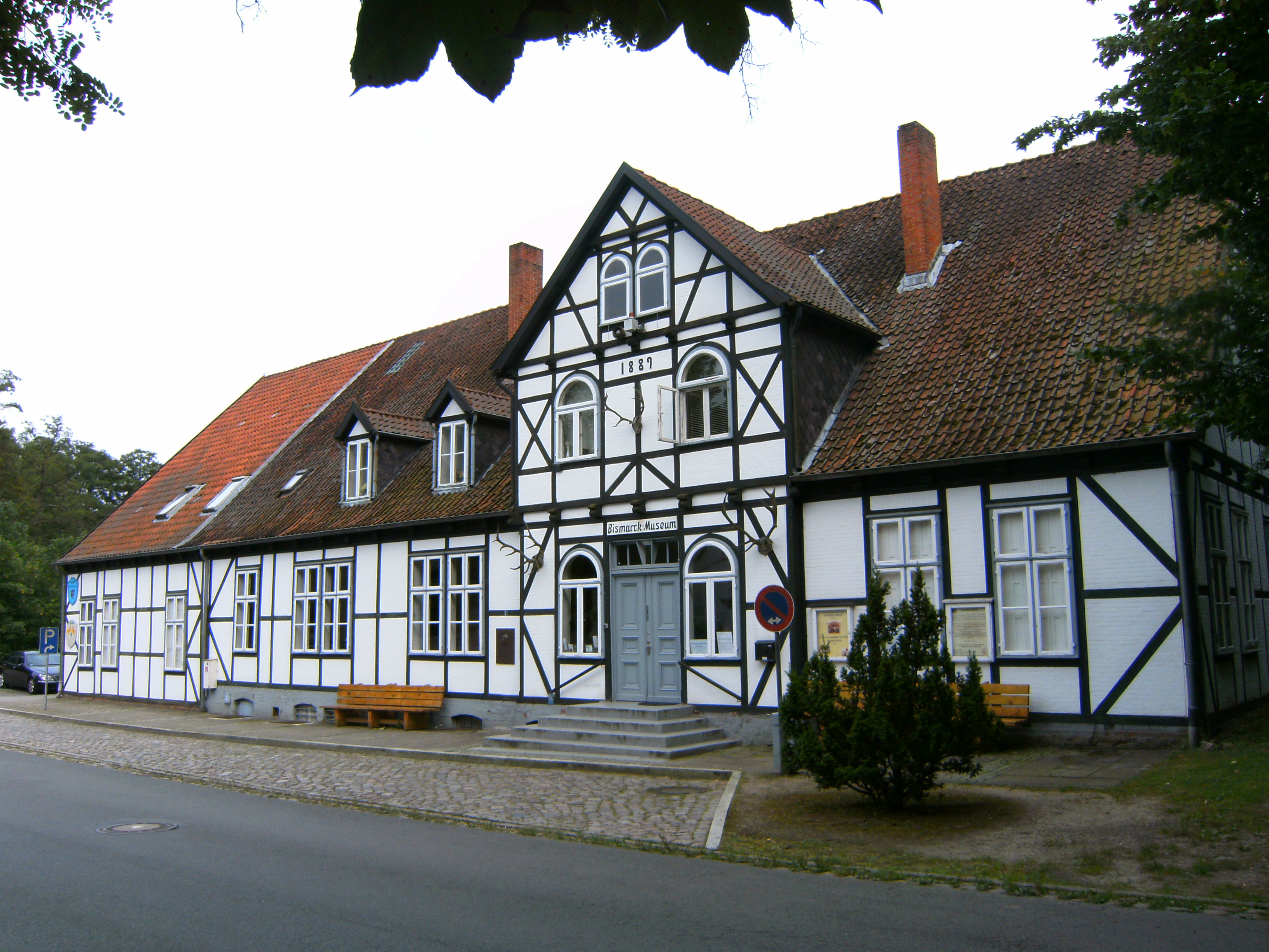 The Bismarck-Museum in Friedrichsruh, east of Hamburg, Germany, in the Altes Landhaus (old house).